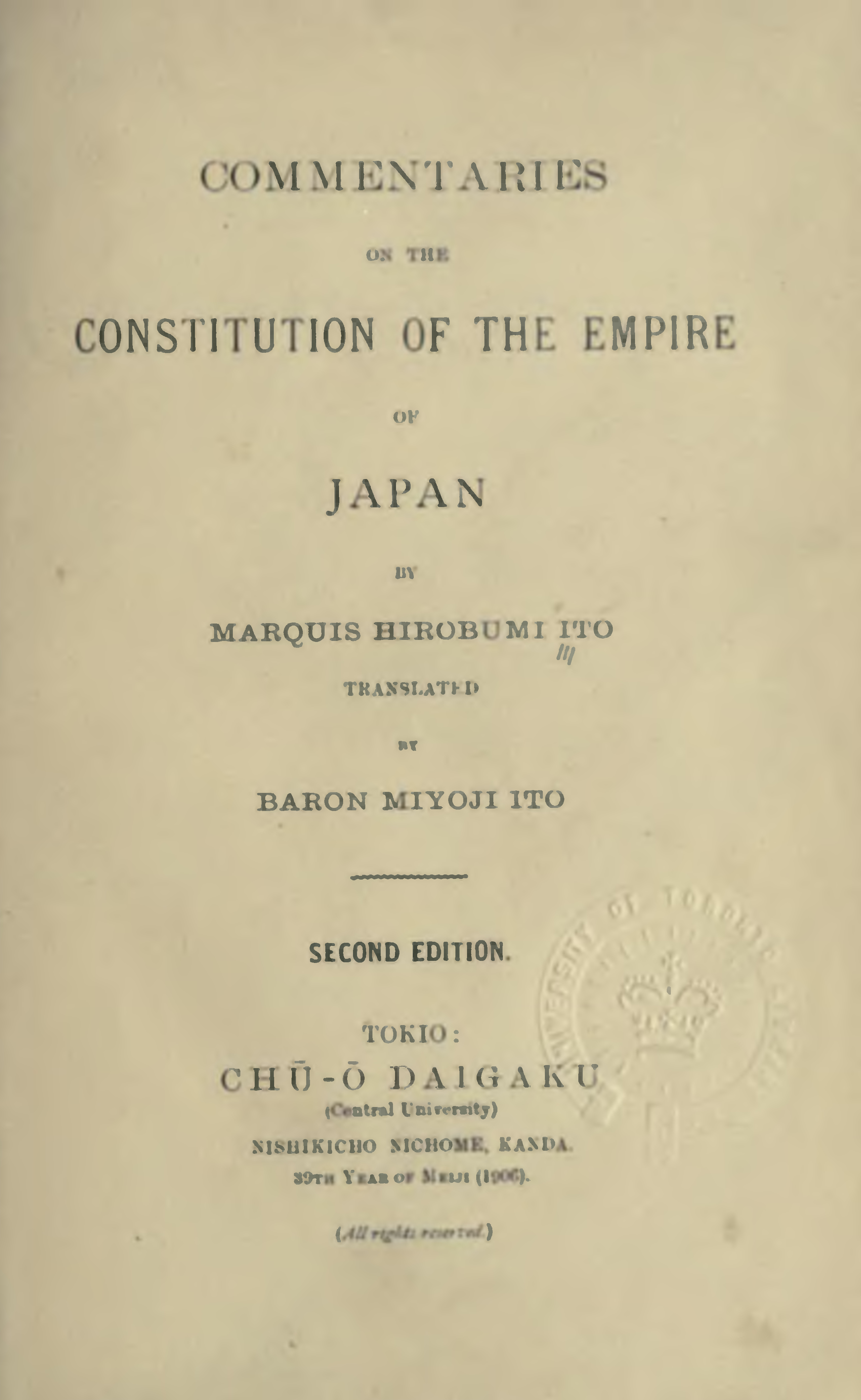 Commentaries on the Constitution of the Empire of Japan